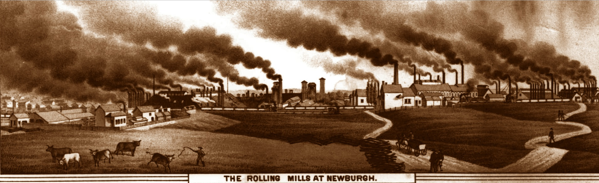 Drawing of the Newburgh Works of the Cleveland Rolling Mill, located in Cleveland, Ohio, in the United States. This print was made in 1885.